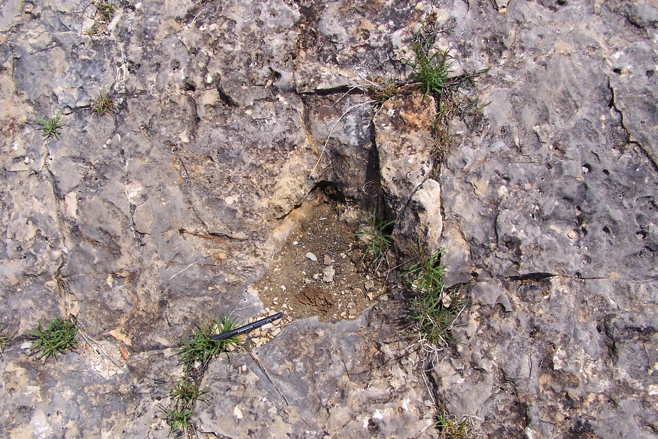 Ichnofossil at La Posa in the Tremp Formation